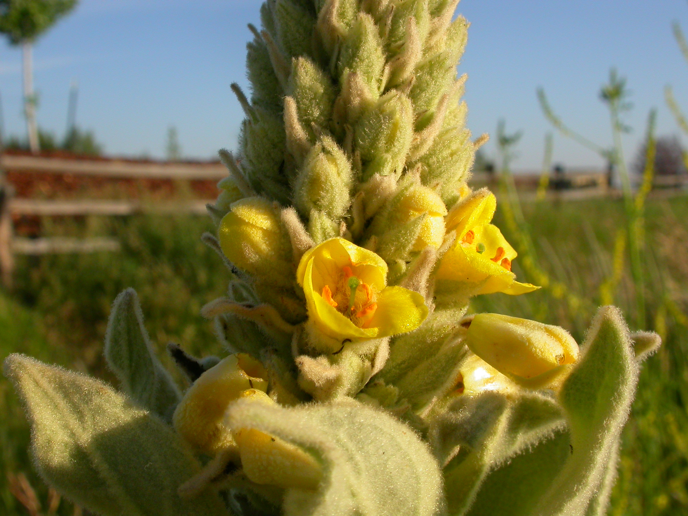 The flowers nearly radially symmetric and with five stamens is distinctive among the genera traditionally placed in Scrophulariaceae.